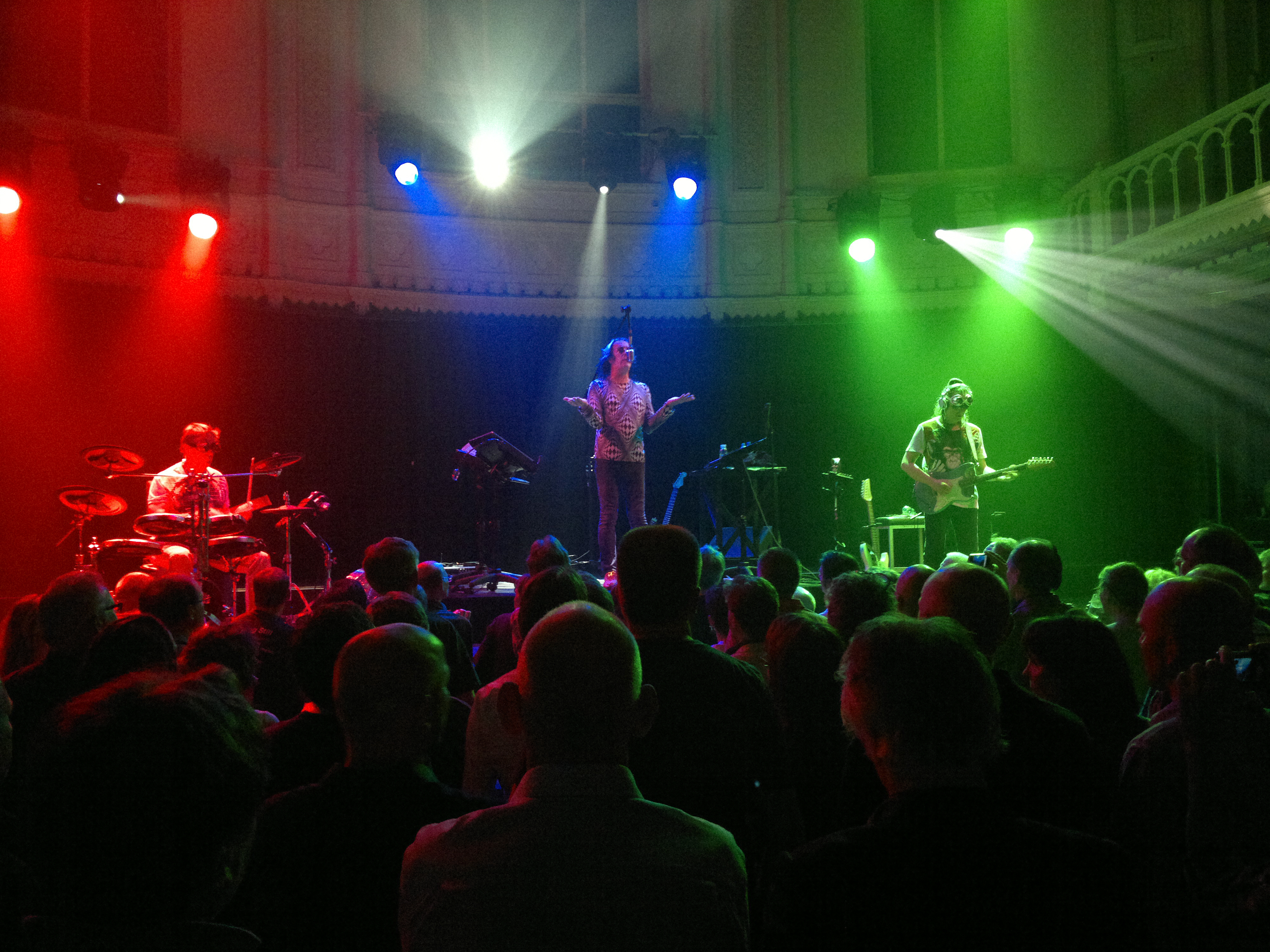 Todd in Paradiso